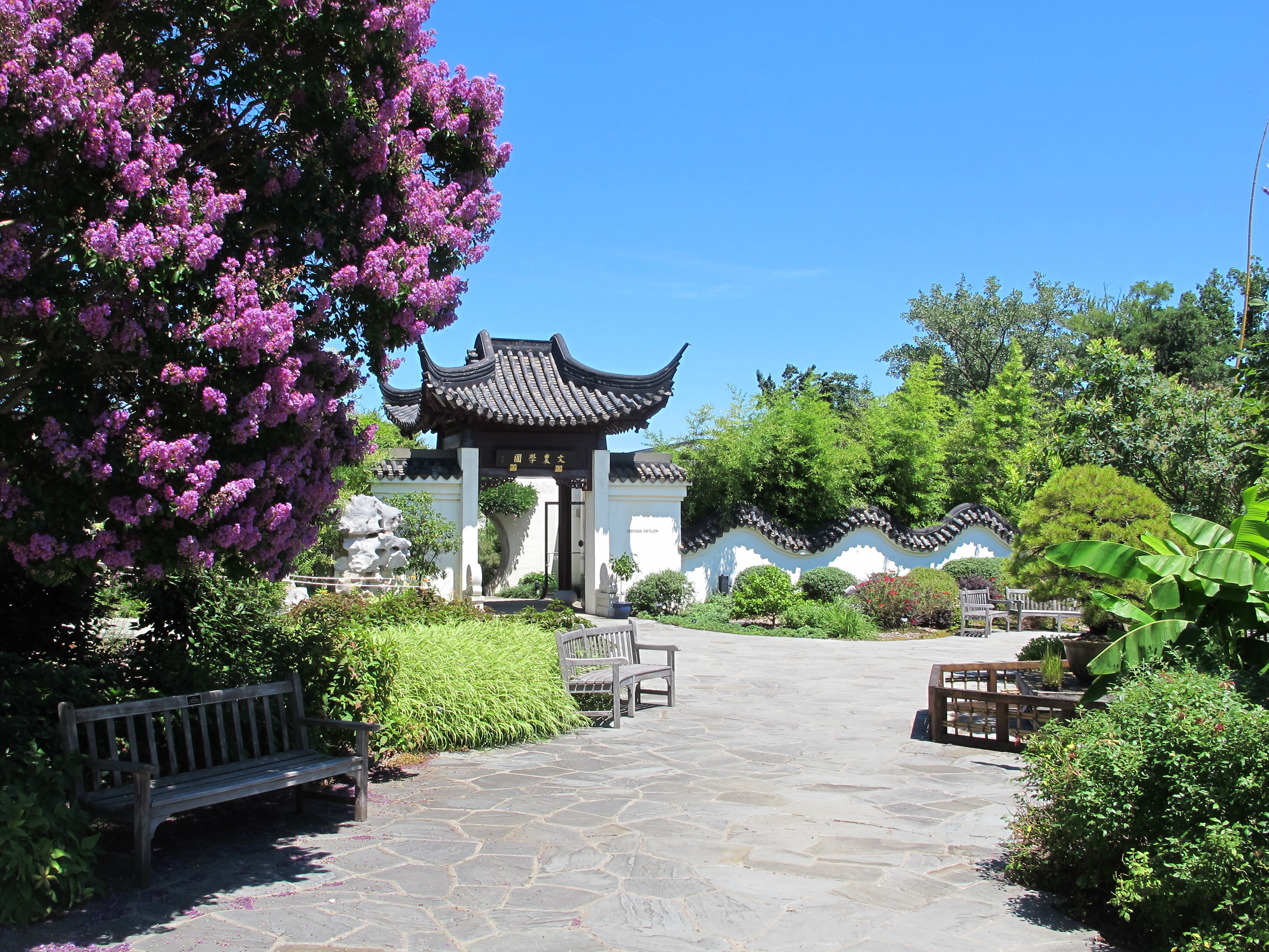 Bonsai and Penjing Museum. Credit the National Arboretum and link to this page